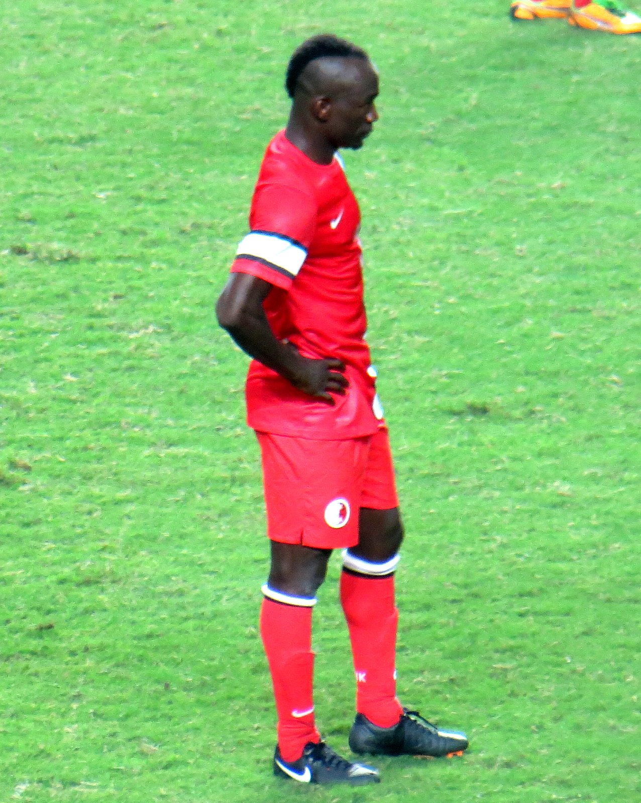 Wisdom Fofo playing for Hong Kong national football team against UAE on 15 October 2013. 中文（香港）: 科夫為香港足球代表隊出戰阿拉伯聯合酋長國足球隊，2013年10月15日。